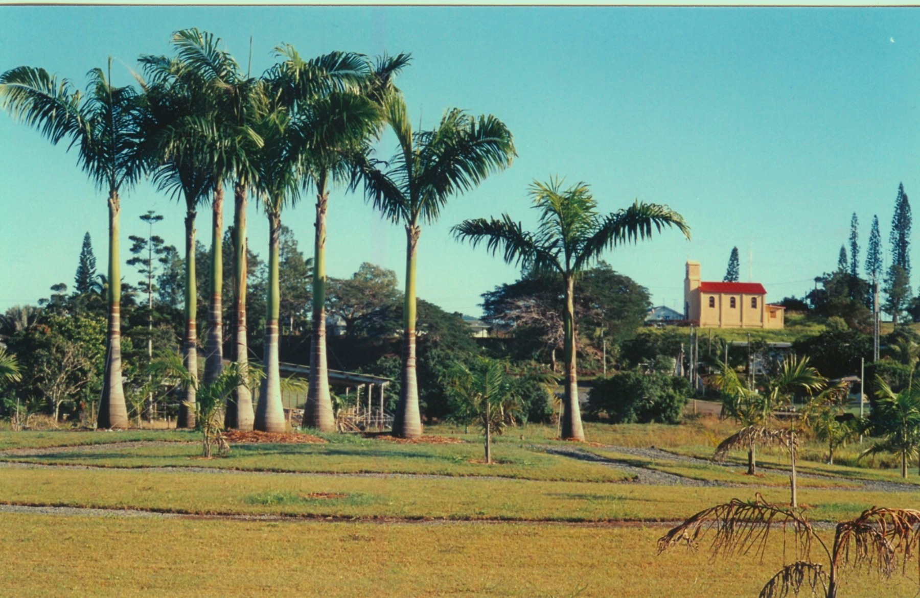 Le jardin de l'Avenir et la chapelle de Moindou.